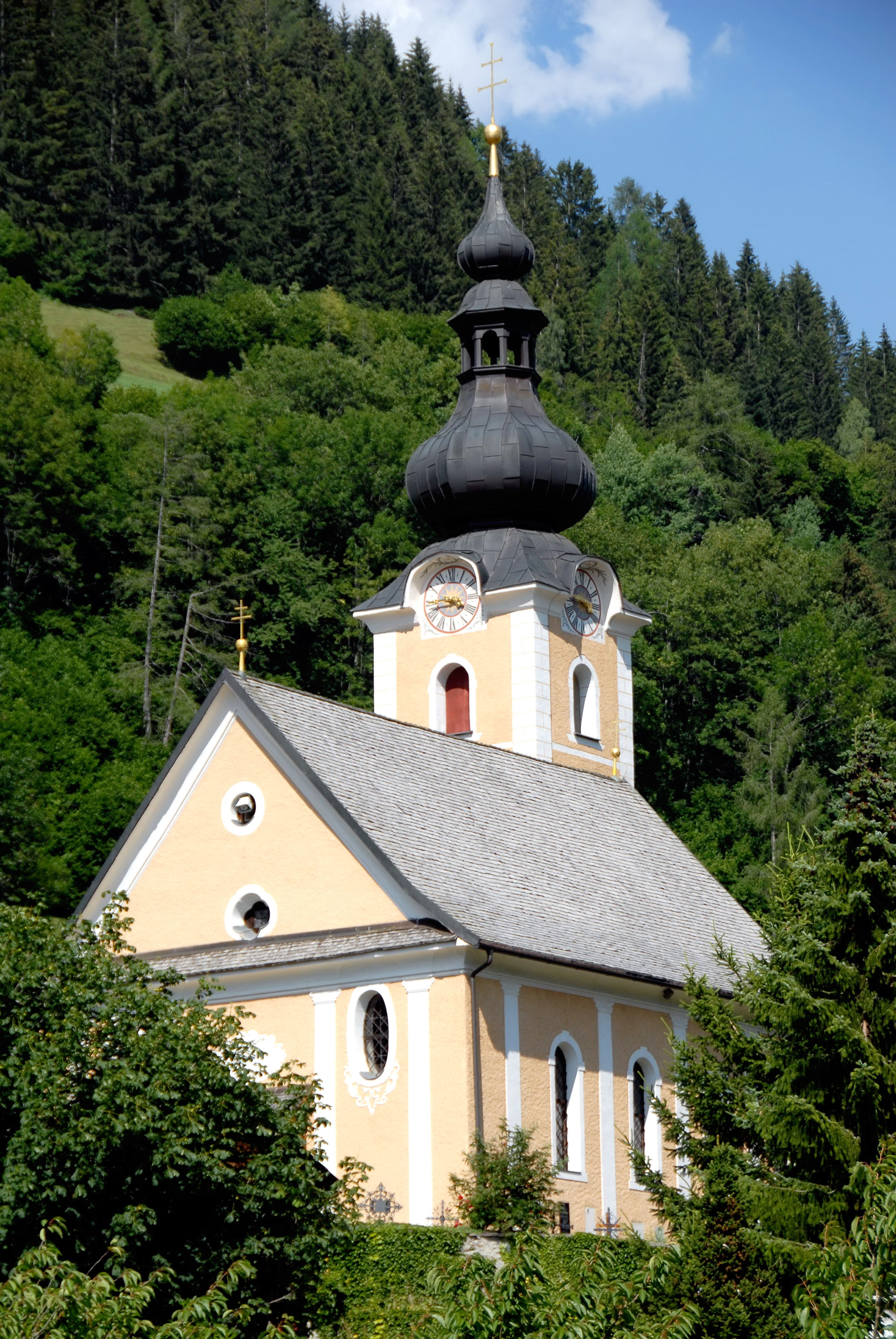 Parish church Saint Ulrich in Bad Kleinkirchheim, district Spittal on the Drau, Carinthia, Austria